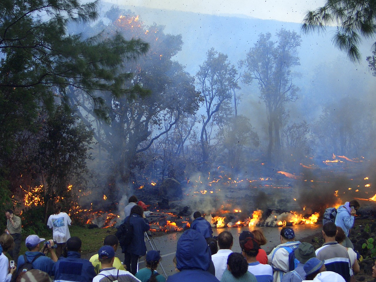 Lava flow crossing the island main road, La Réunion, 2004.Eruption, La Réunion 2004